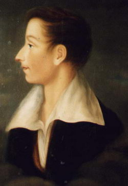 Posthumous portrait of the schoolboy Svante Wijkman, who died in 1837. The portrait was made on behalf of his mother shortly after his death and donated together with a scholarship fund to Uplands nation in Uppsala. It is hanging in the Wijkman room of the nation and has been the object of much speculation and local lore and has given name to a number of things within the nation.